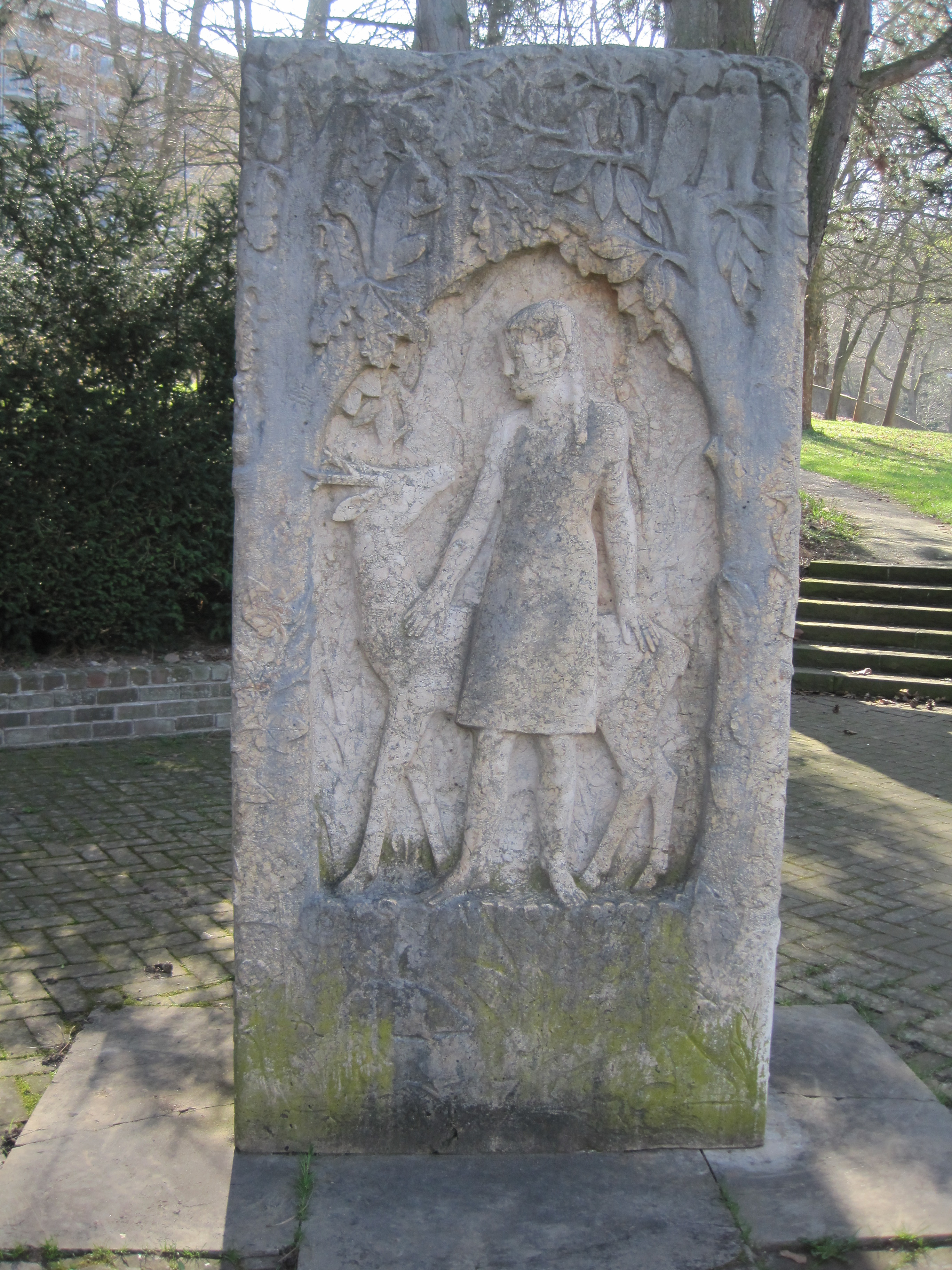 Memorial for Grimm Brothers, Göttingen, Germany check usage